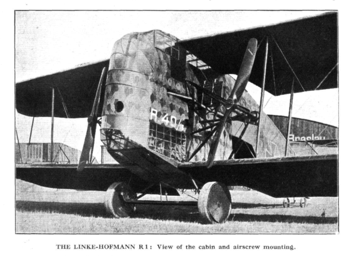 Linke-Hofmann R1 Aircraft, front view. Aircraft number 40/16, photographed in front of a hangar at Breslau, Germany (now Wrocław in Poland).